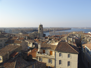 View of Arles from the Arena, with the Rhone in the background, photographed by Jeremy J. Shapiro.